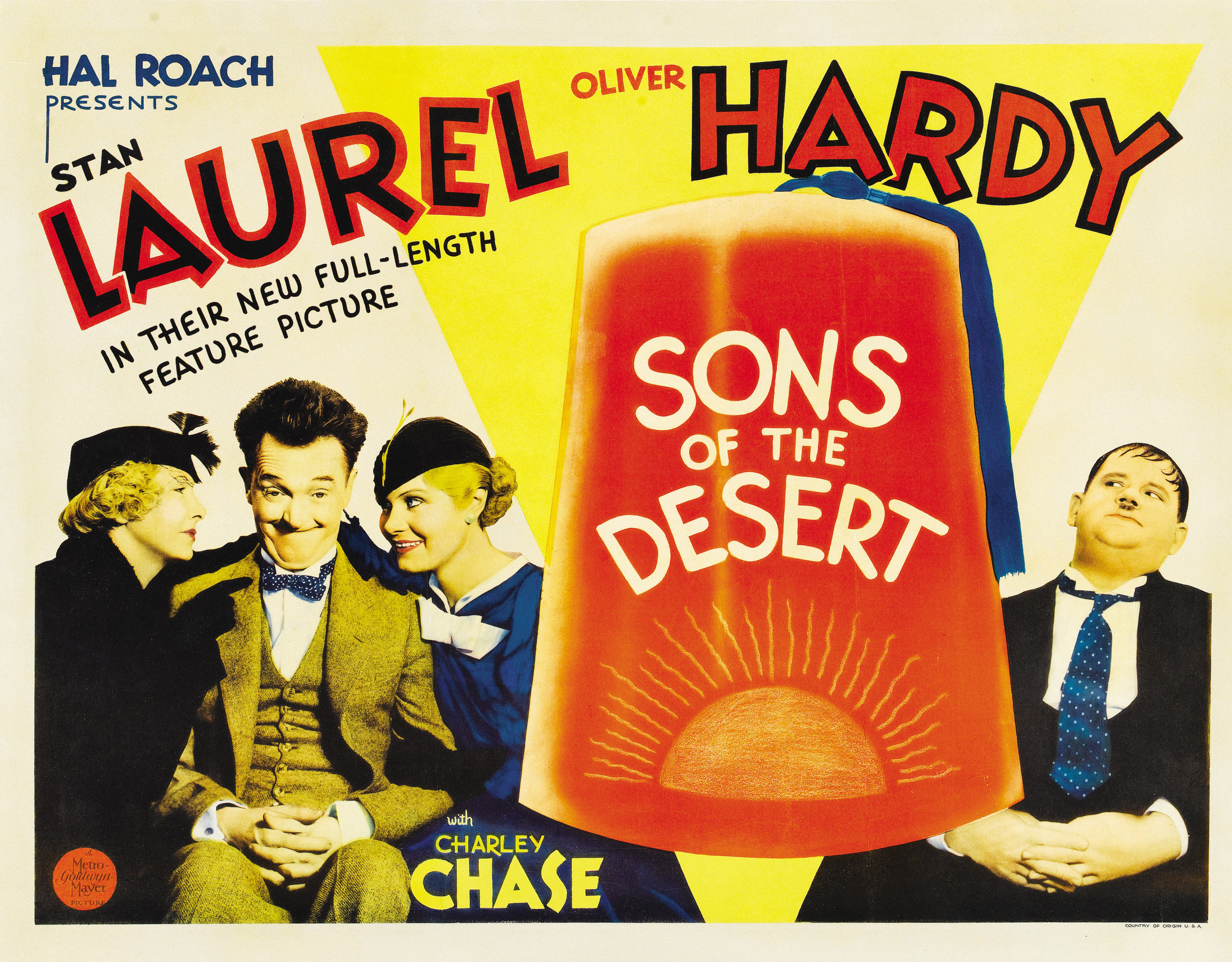 Half-sheet theatrical release poster for the 1933 film Baby Face.